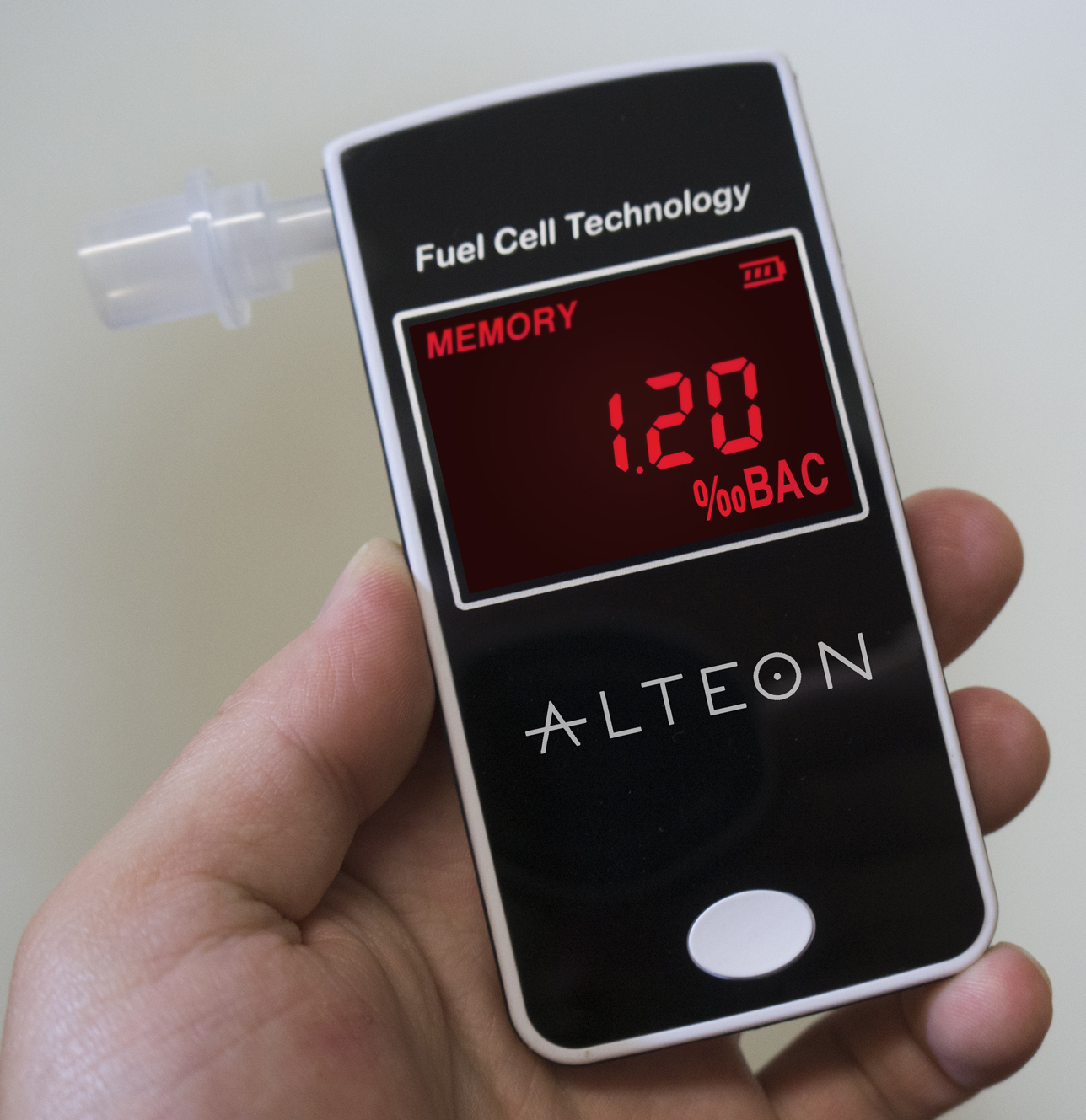 Blood analyzer - ALTEON - Fuell Cell